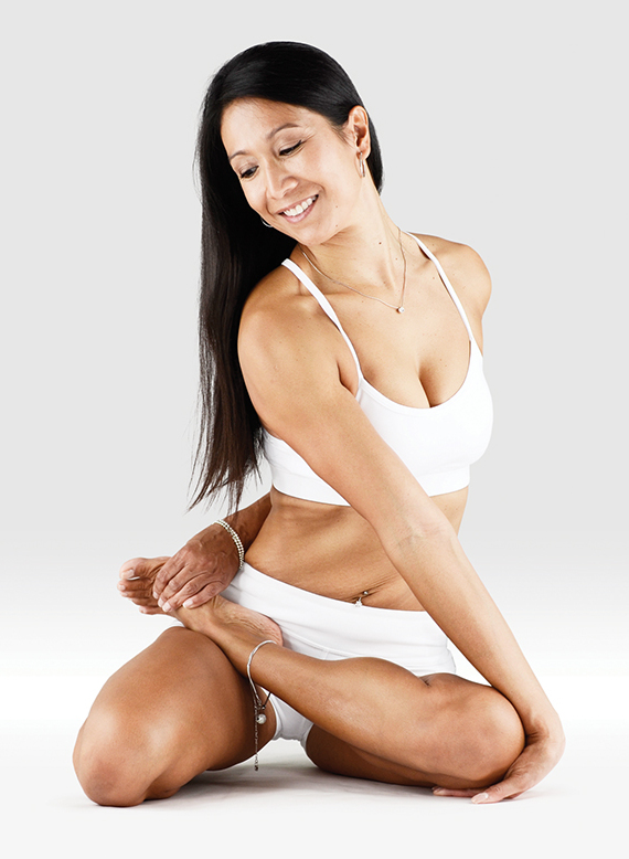 Mr-yoga-bharadvajas-twist